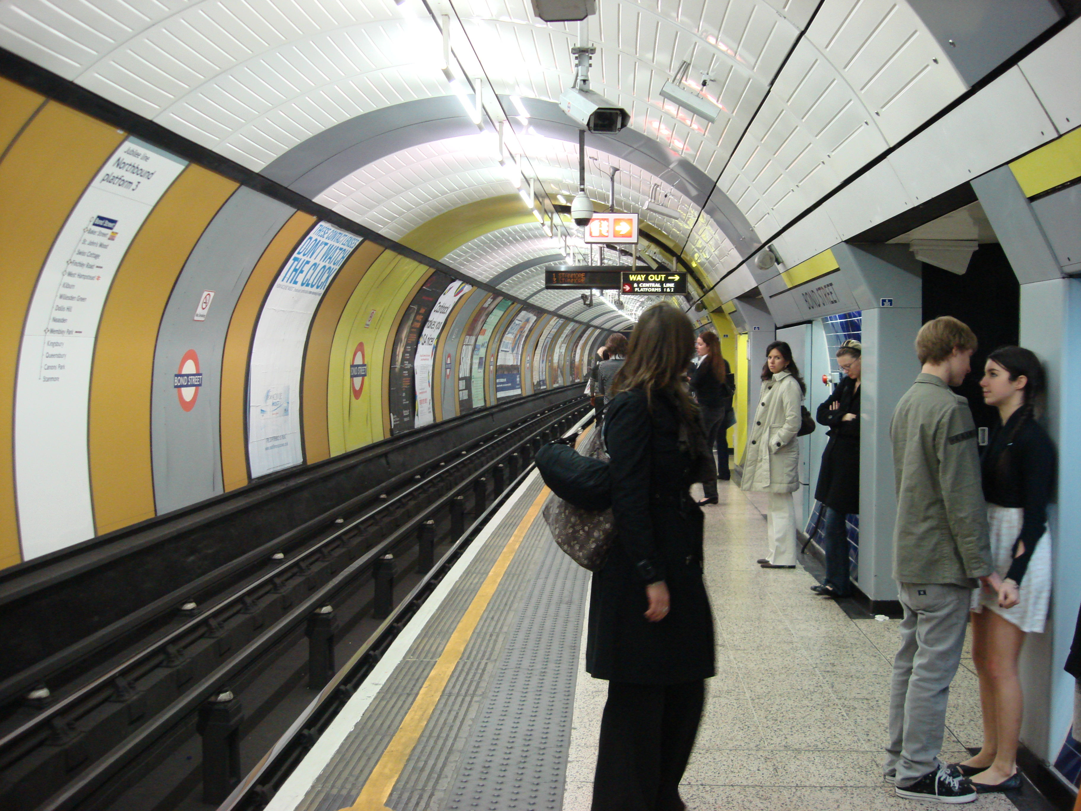 Northbound Jubilee line platform at Bond street